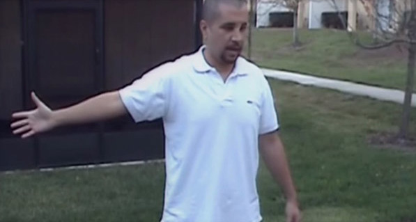 Image still from video released by the Sanford Police Department (Florida) of incident walkthrough.